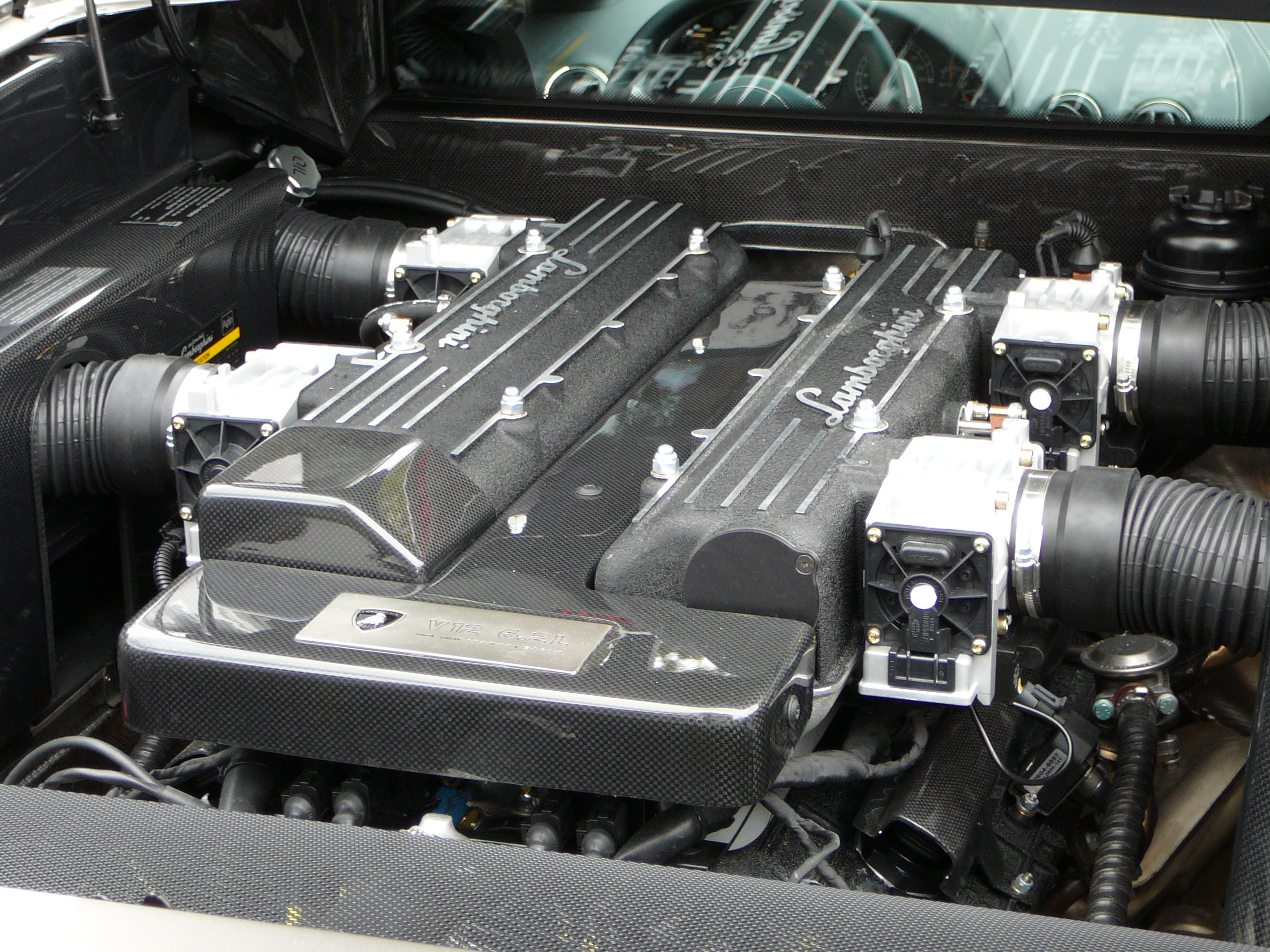 A Lamborghini Murciélago V12 engine - by Brett Weinstein (Wikipedia user: Nrbelex) taken at the Scarsdale Concours in 2006